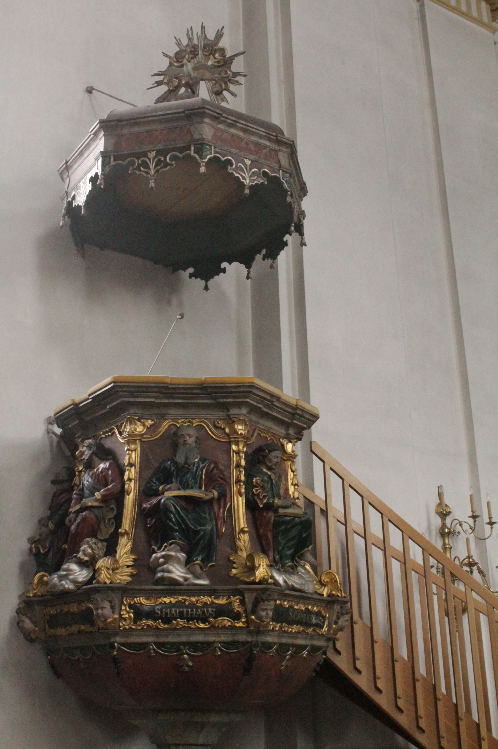 Pulpit of St Martins Church, Nebelschütz